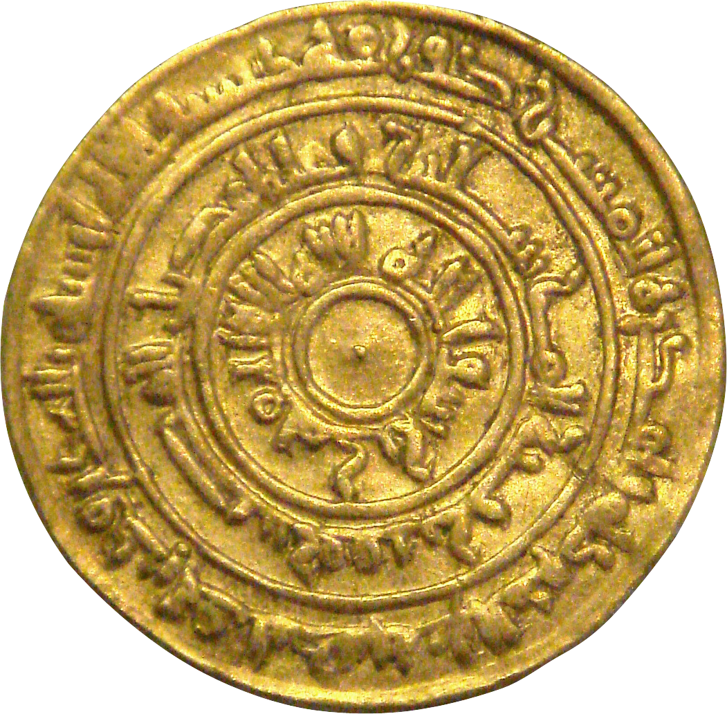 Calif_al_Muizz_Misr_Cairo_969_CE